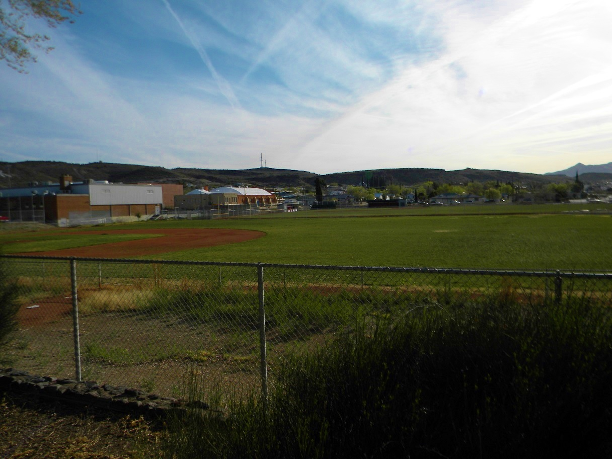 Mohave County Hospital Site is now the athletic fields of Lee Williams High School.